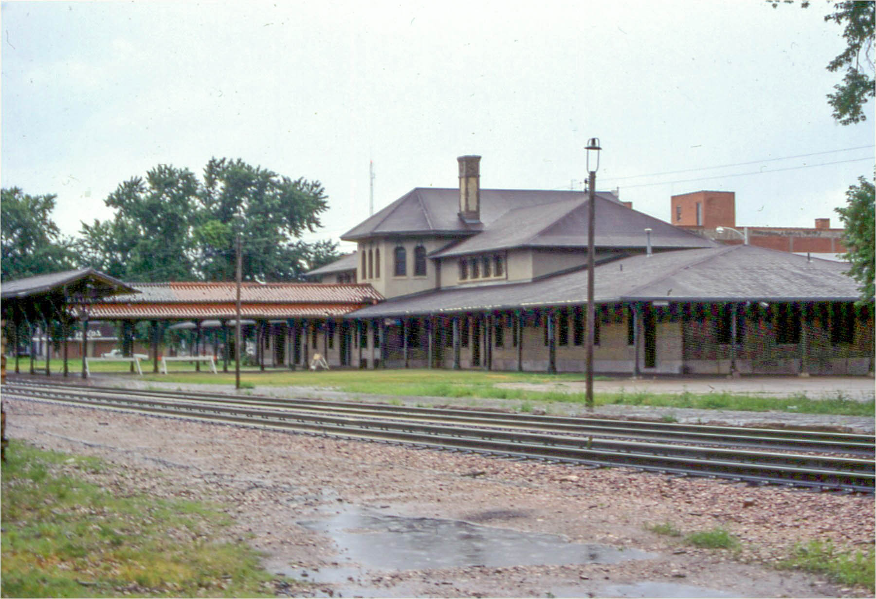 Burlington Station in Hastings, Nebraska in 1995. The Spanish Colonial Revival building was constructed in 1900, and is listed in the National Register of Historic Places. It continues to serve as an Amtrak station.